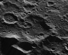 Oblique view of Watson, on the far side of the moon, facing west.